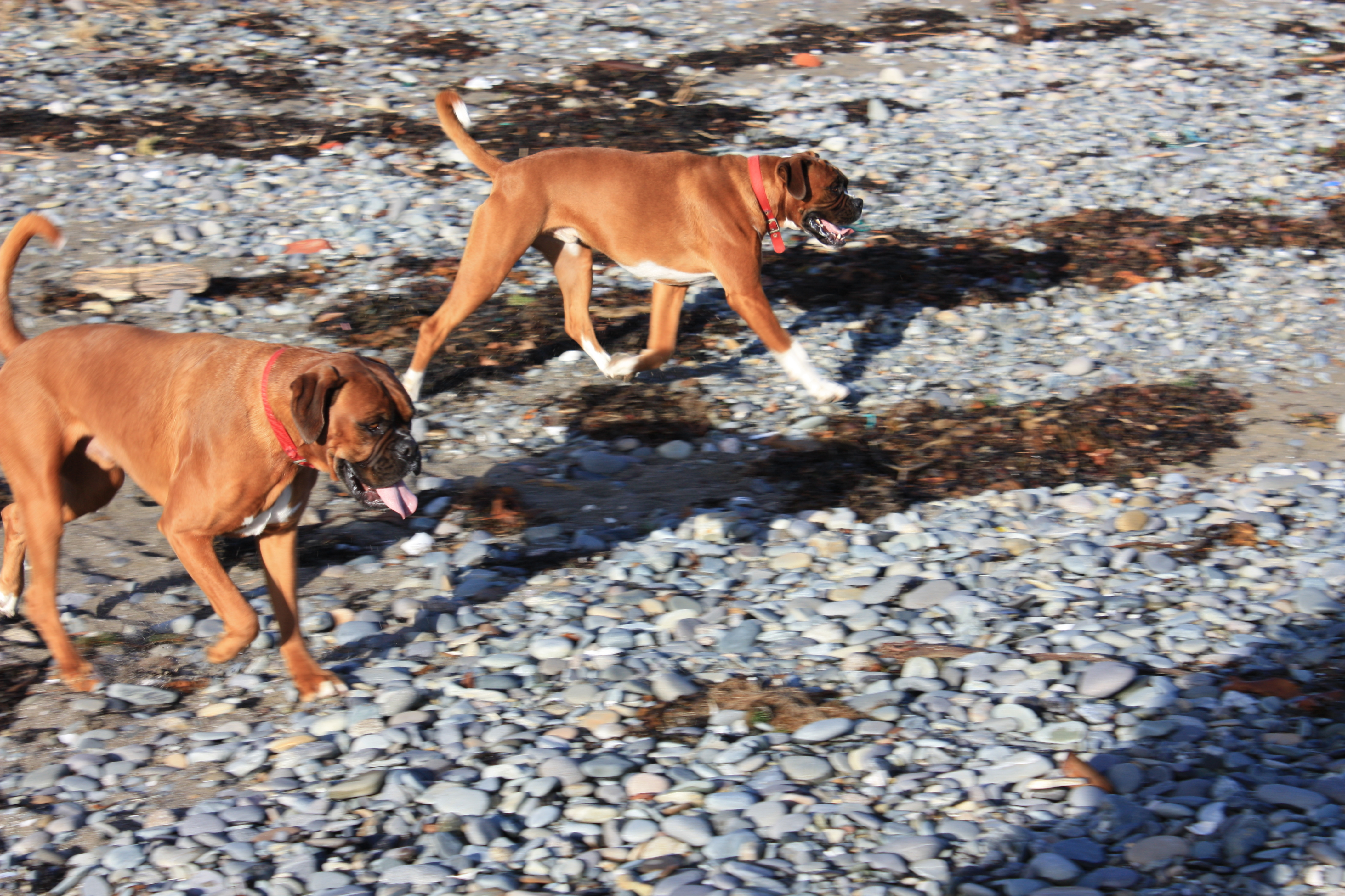 Dogs on Murlough Beach, Newcastle, County Down, Northern Ireland, February 2010